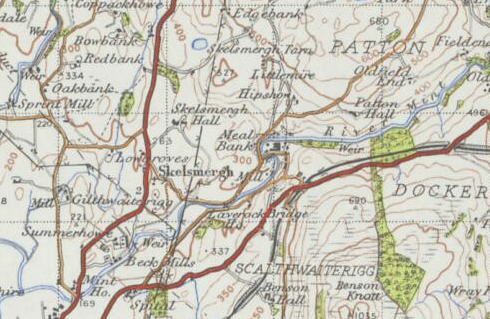 A map view of Skelsmergh.